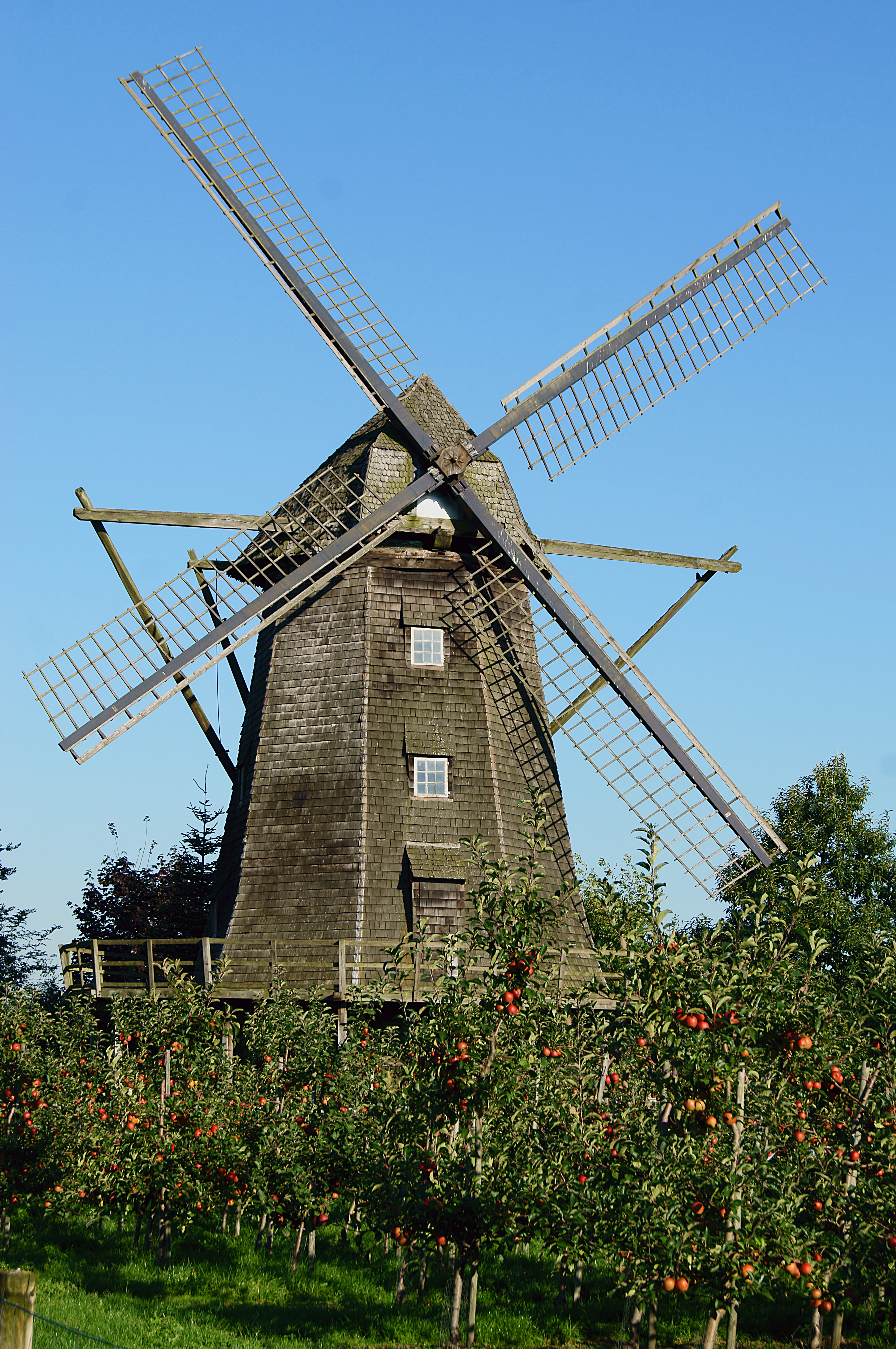 The windmill in Coesfeld-Lette was built in 1812/13.This is a photograph of an architectural monument.